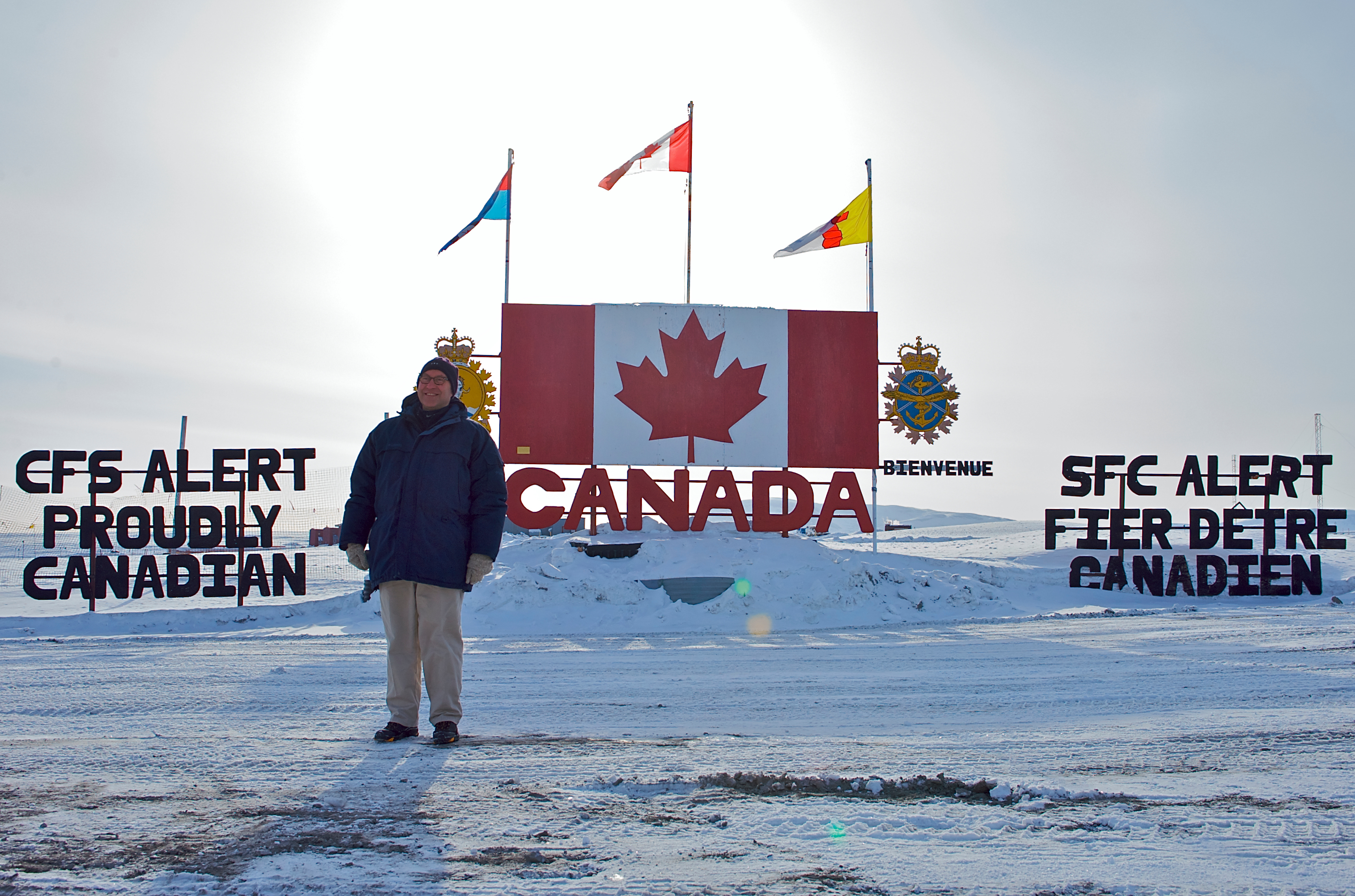 United States Ambassador Jacobson in front of CSB Alert welcome sign